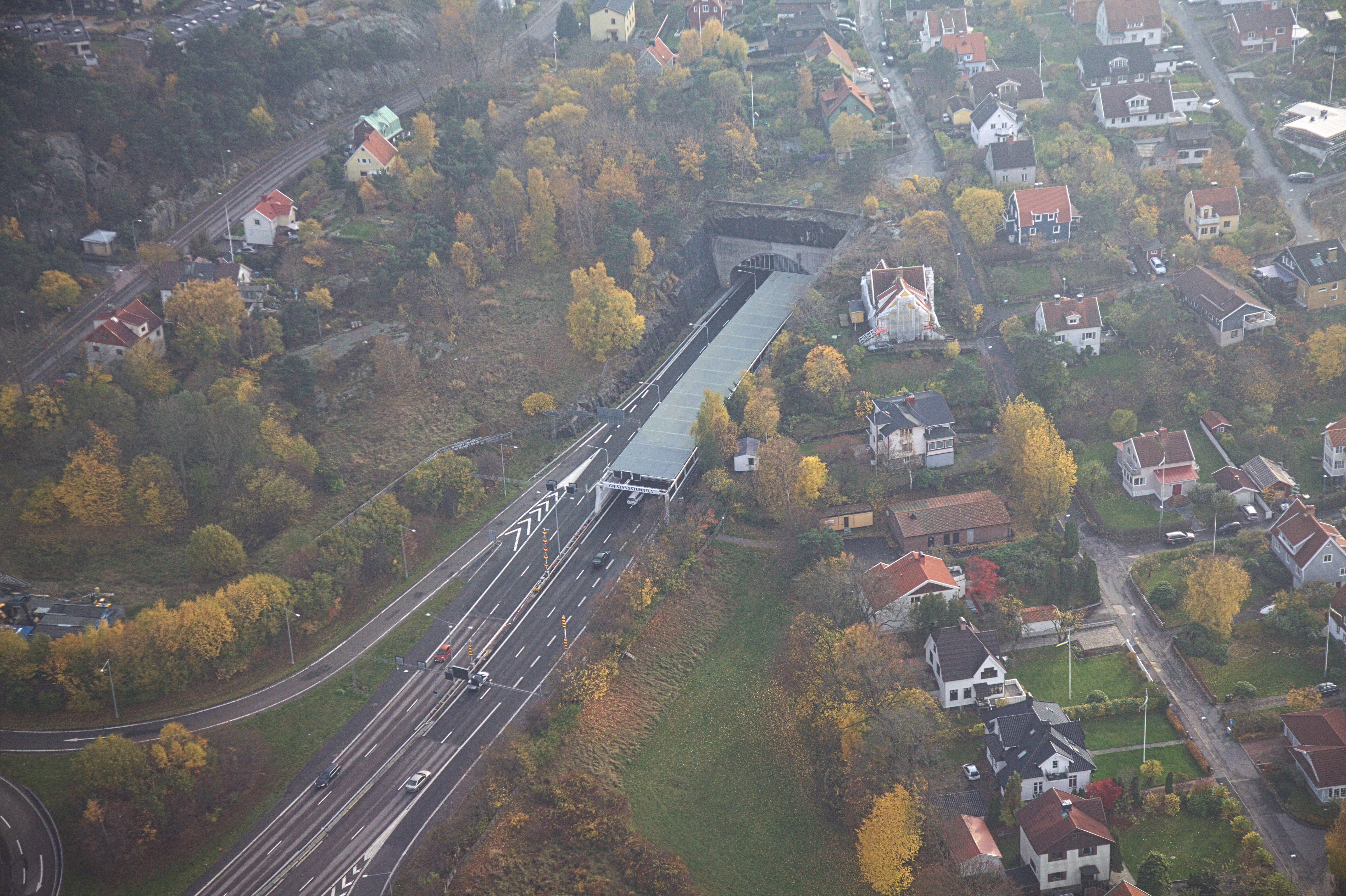 Photo taken on a helicopter over Gothenburg